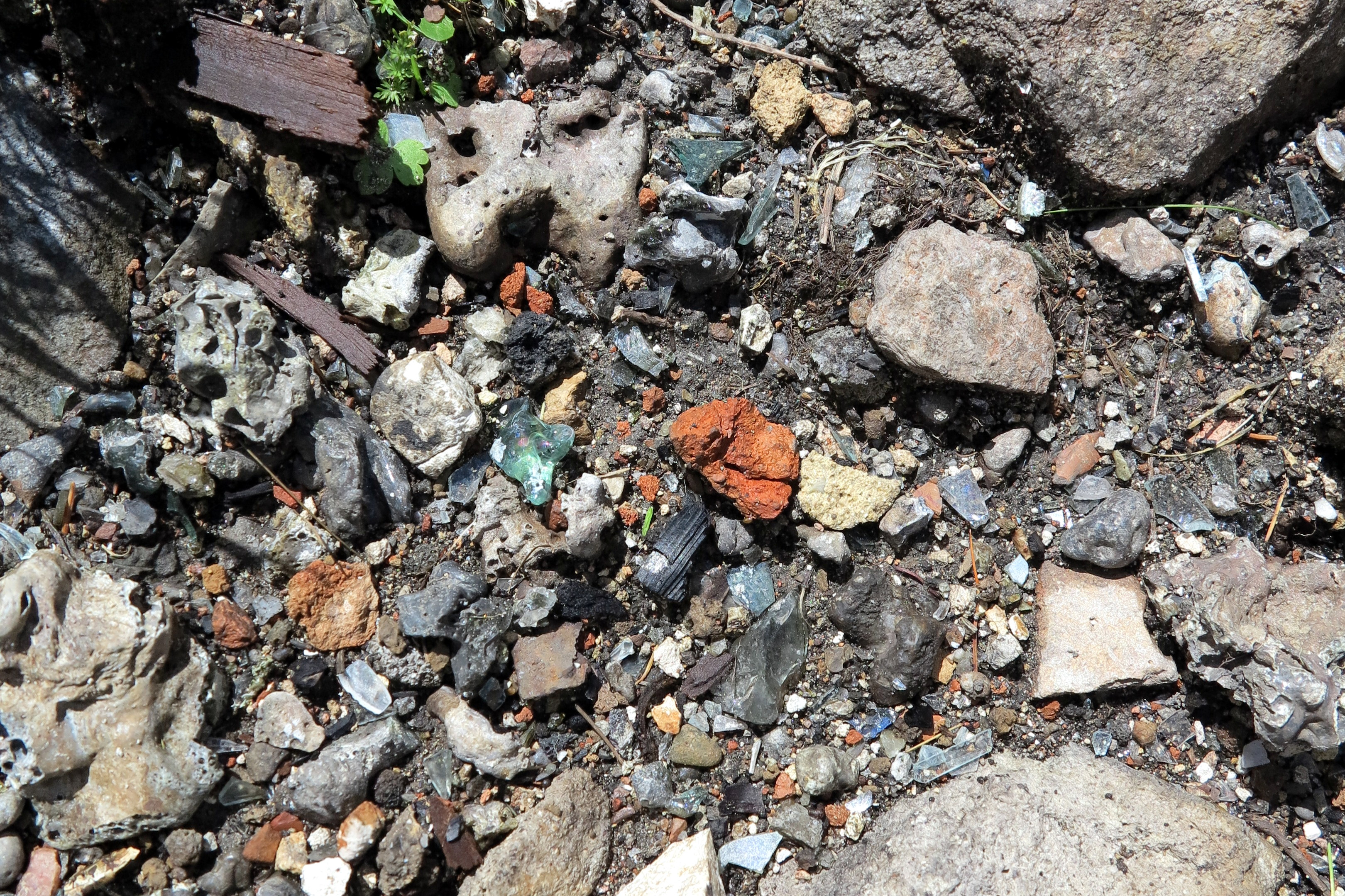 Residues and slag glass fragments in a former glass furnace in the former village glassblower Tscherniheim, a place of Forest glass production from 1621 to 1879 in the municipality Hermagor-Pressegger See in Carinthia / Austria / EU.